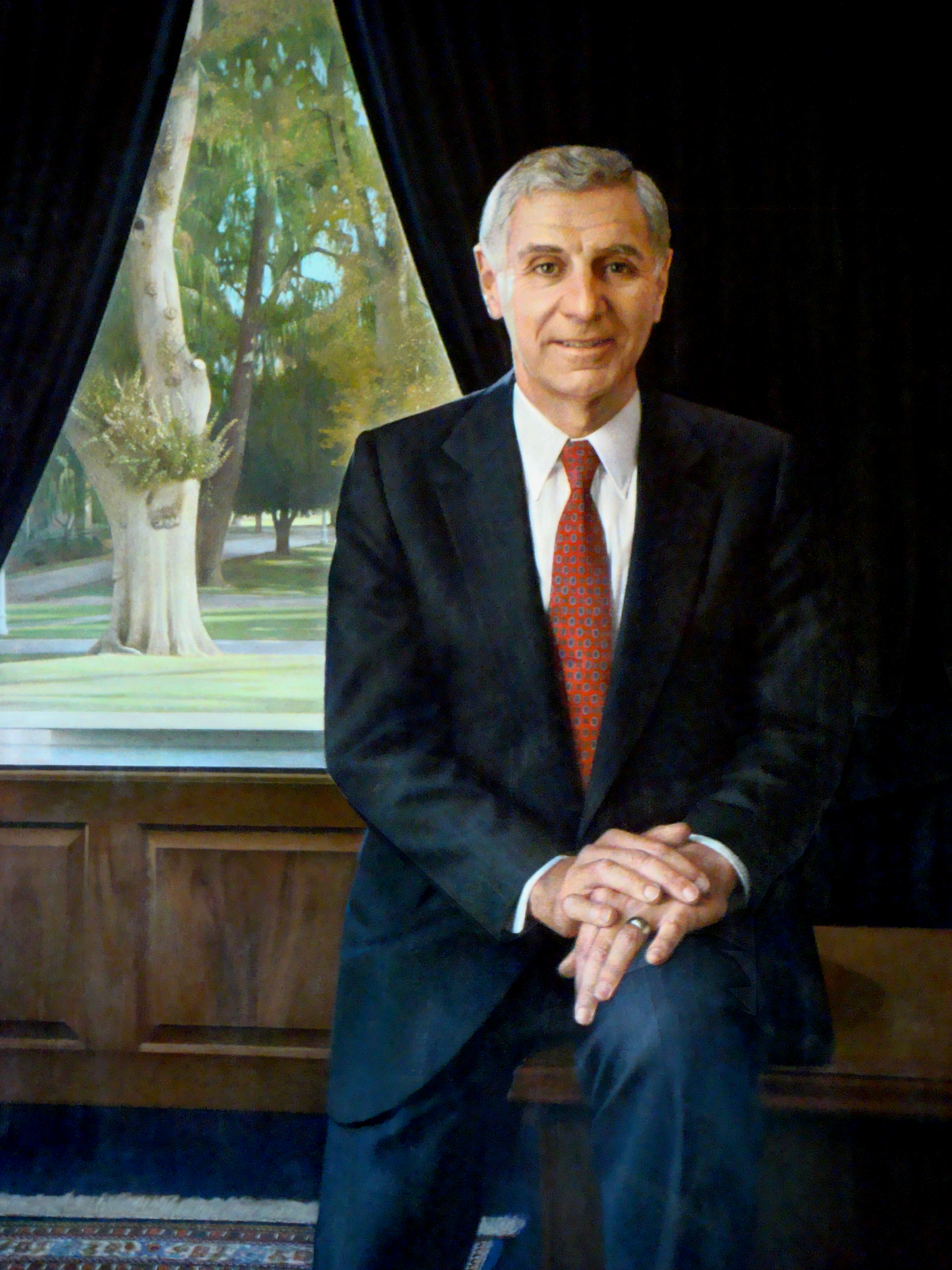 Official portrait of George Deukmejian as Governor of California